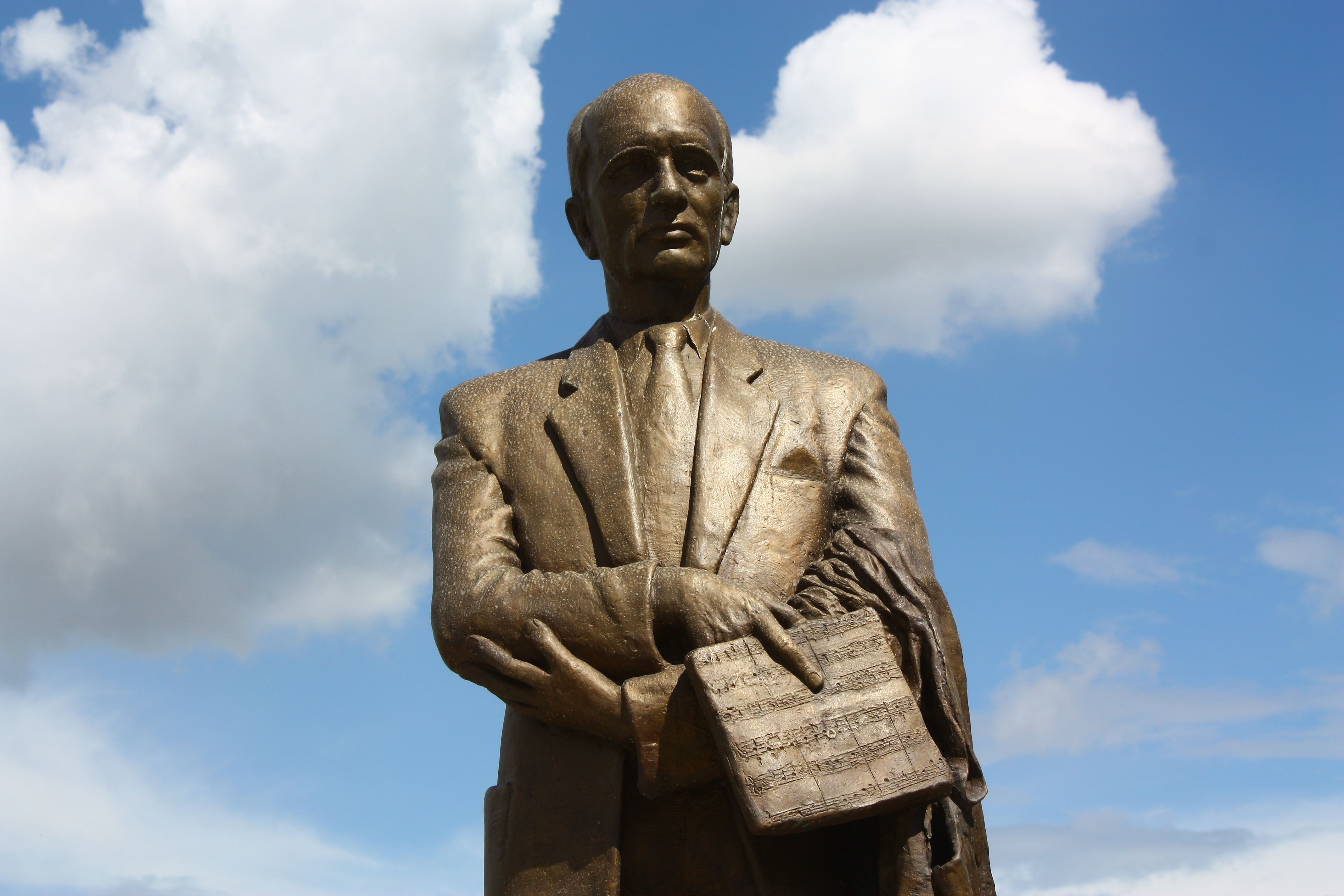 Sculpture od the Bridge of Arts in Skopje, Macedonia This image is uploaded as part of the picture contest Wiki Loves Cultural Heritage in Macedonia 2013. English | македонски | +/−